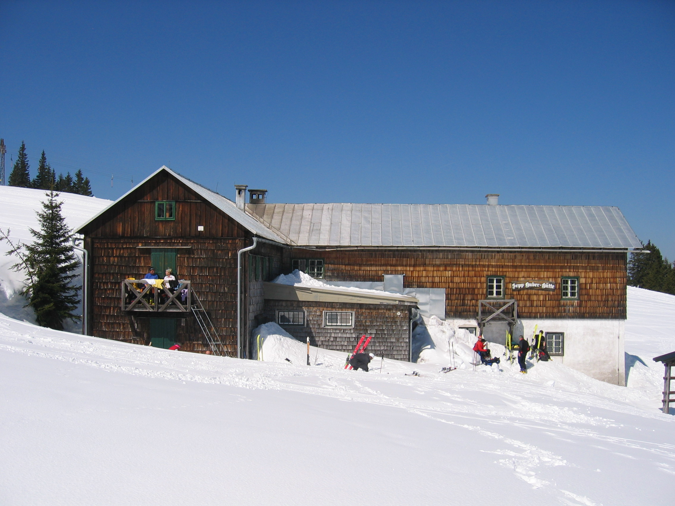 Sepp-Huber-Hütte, Upper Austria, Austria